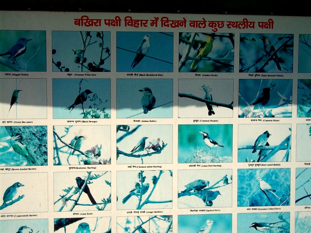 types of birds coming to lake, takne from the poster put up by UP forest department